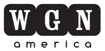 The current WGN America logo starting July 1, 2010